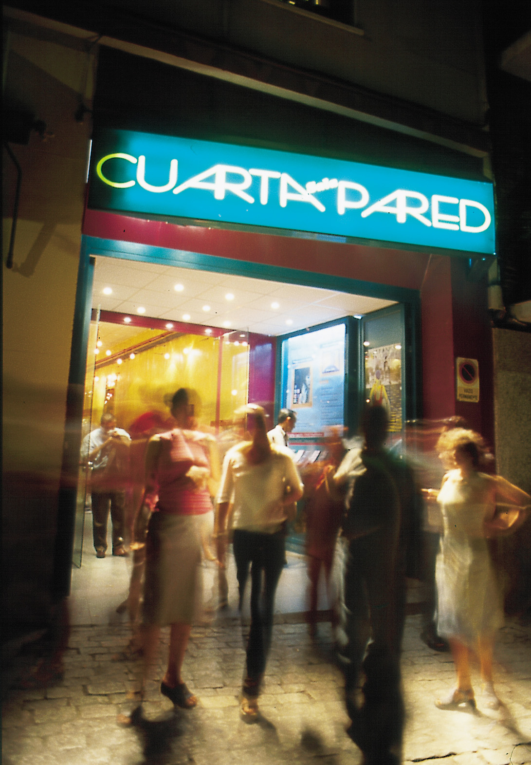 Entrada de la Sala Cuarta Pared